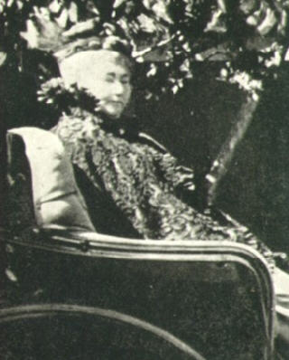 Sarah Lockwood Winchester in her only extant image circa 1920.